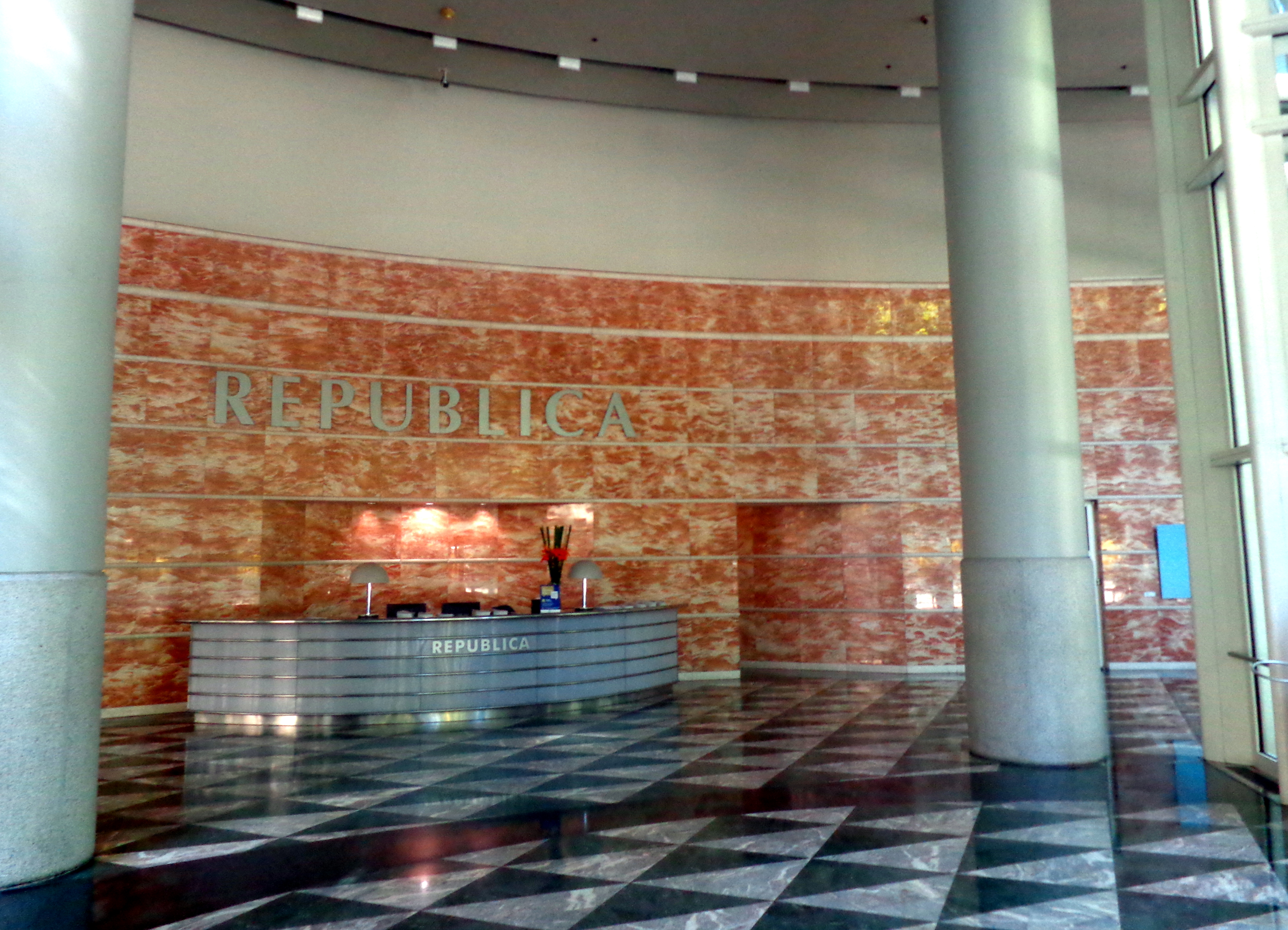 Lobby of the República building, in Tucumán 1, neighborhood of Puerto Madero, Buenos Aires, Argentina.